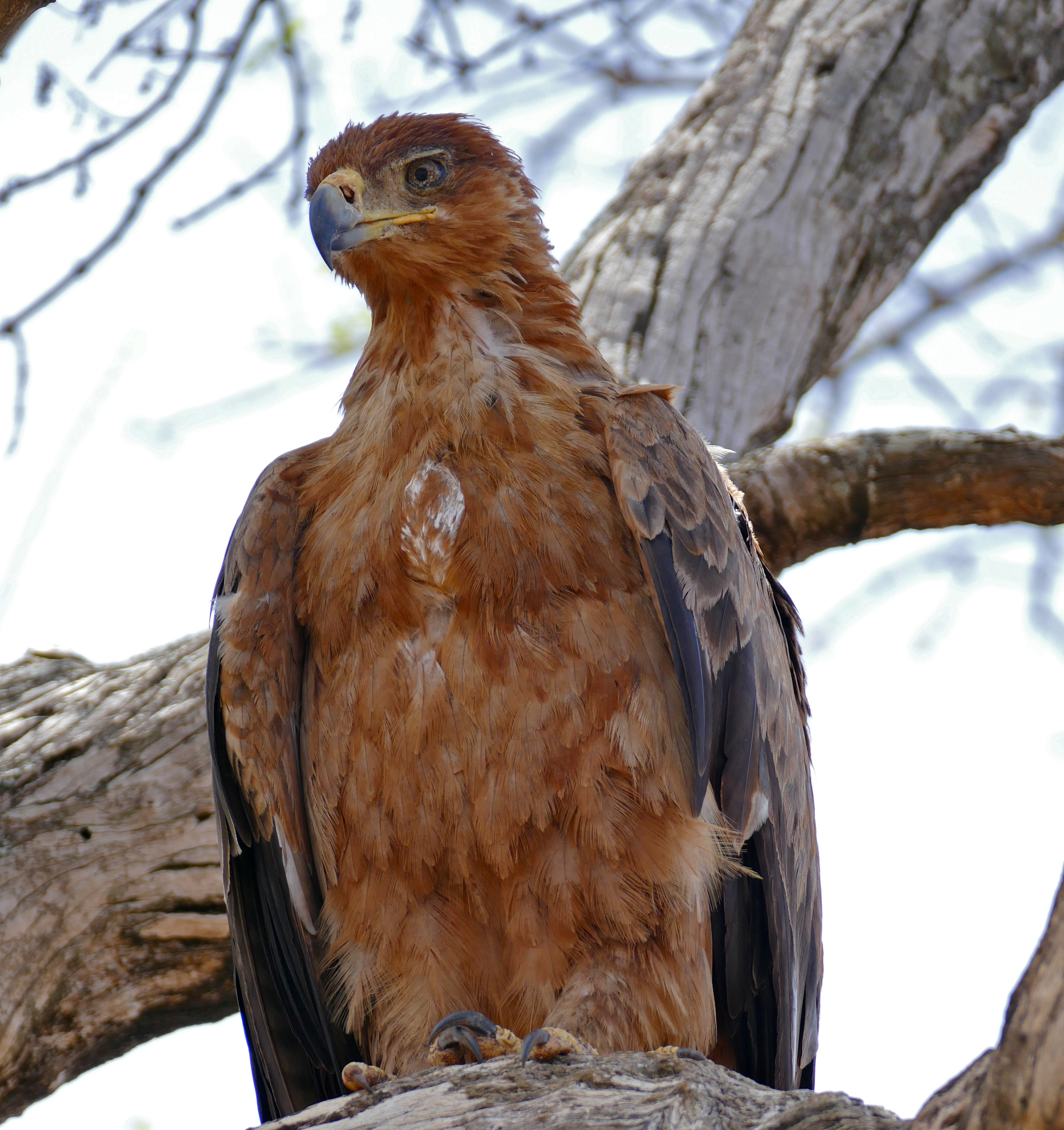 H10 Road North of Lower Sabie, Kruger NP, Mpumalanga, SOUTH AFRICA